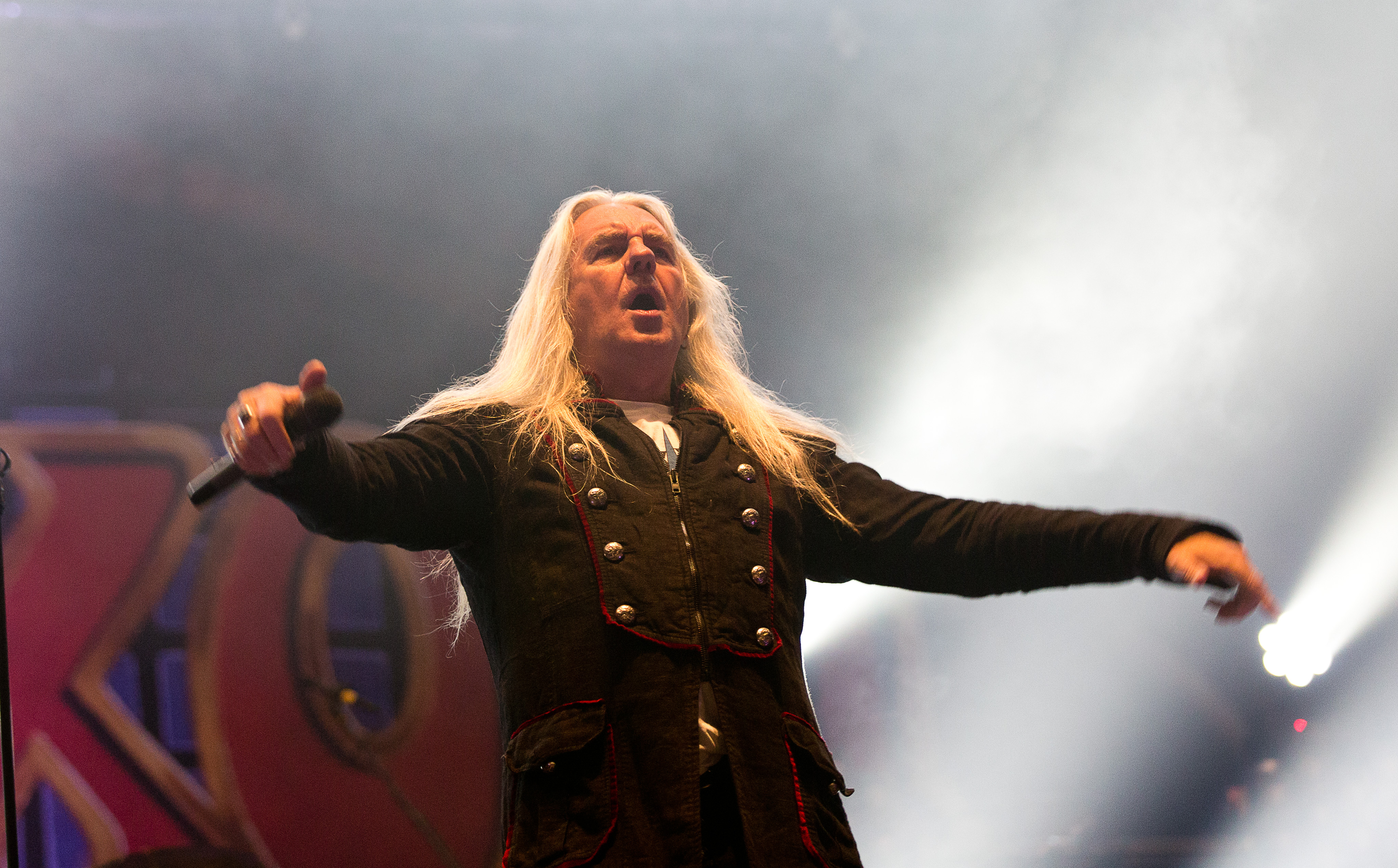 The English heavy metal band Saxon at the Rockharz Open Air 2016 in Ballenstedt/Germany.